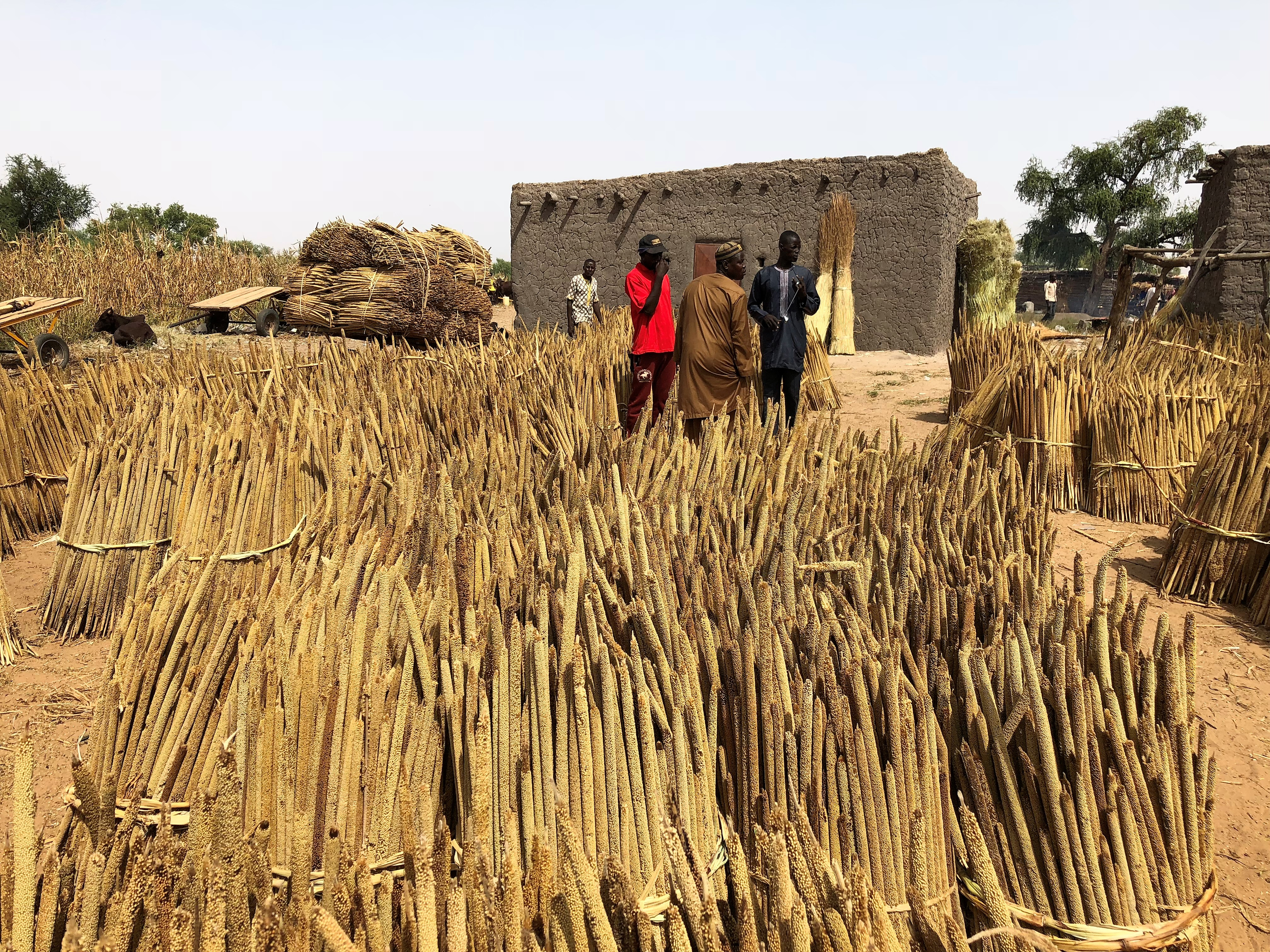 The sale of millet on the weekly market in N'Gonga (Dosso region, Boboye department, N'Gonga commune), Niger.